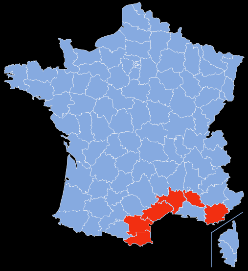 Autogenerated image to indicate departement given by filename.